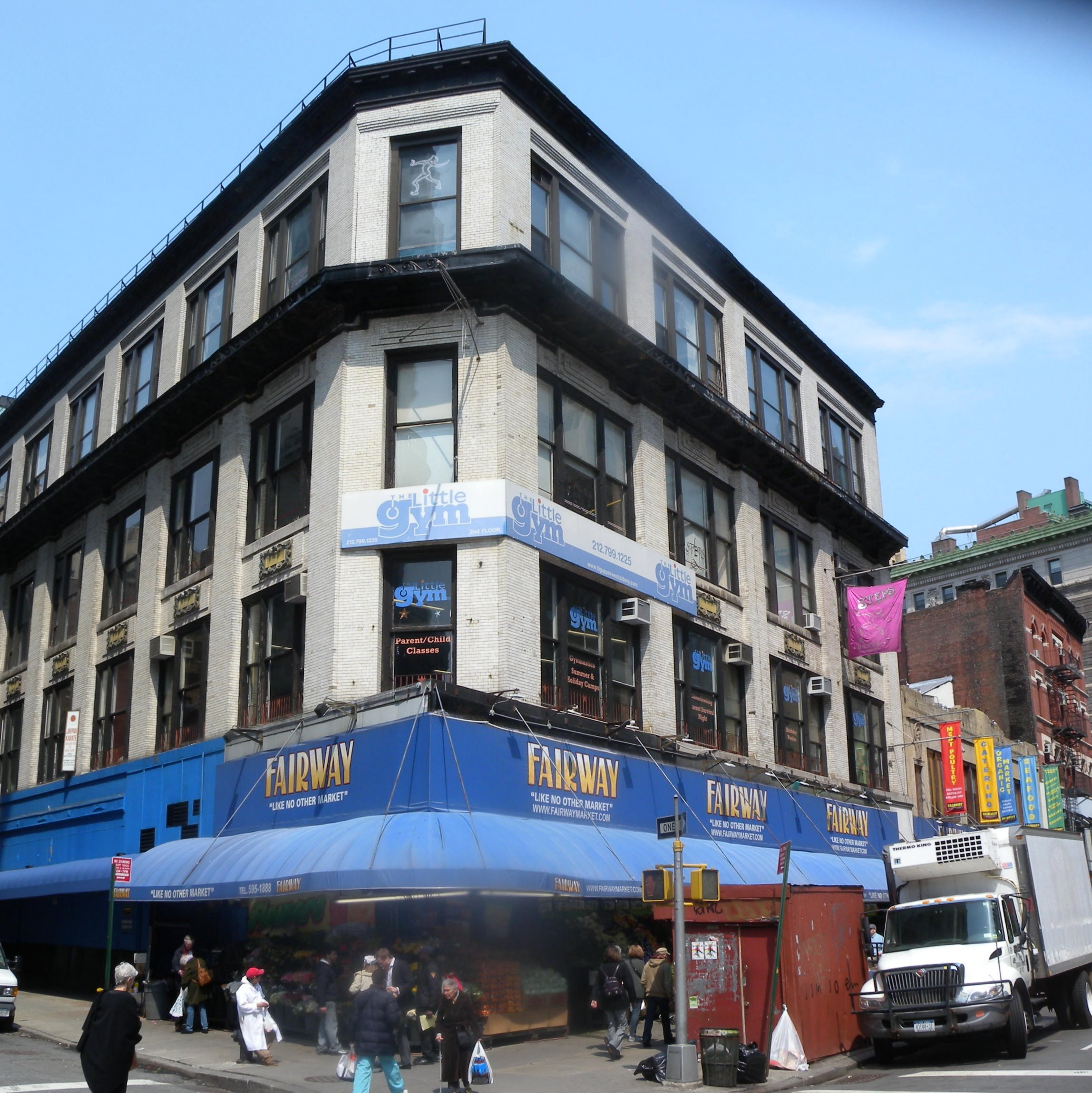 Looking north from Broadway median across 74th on a sunny midday.